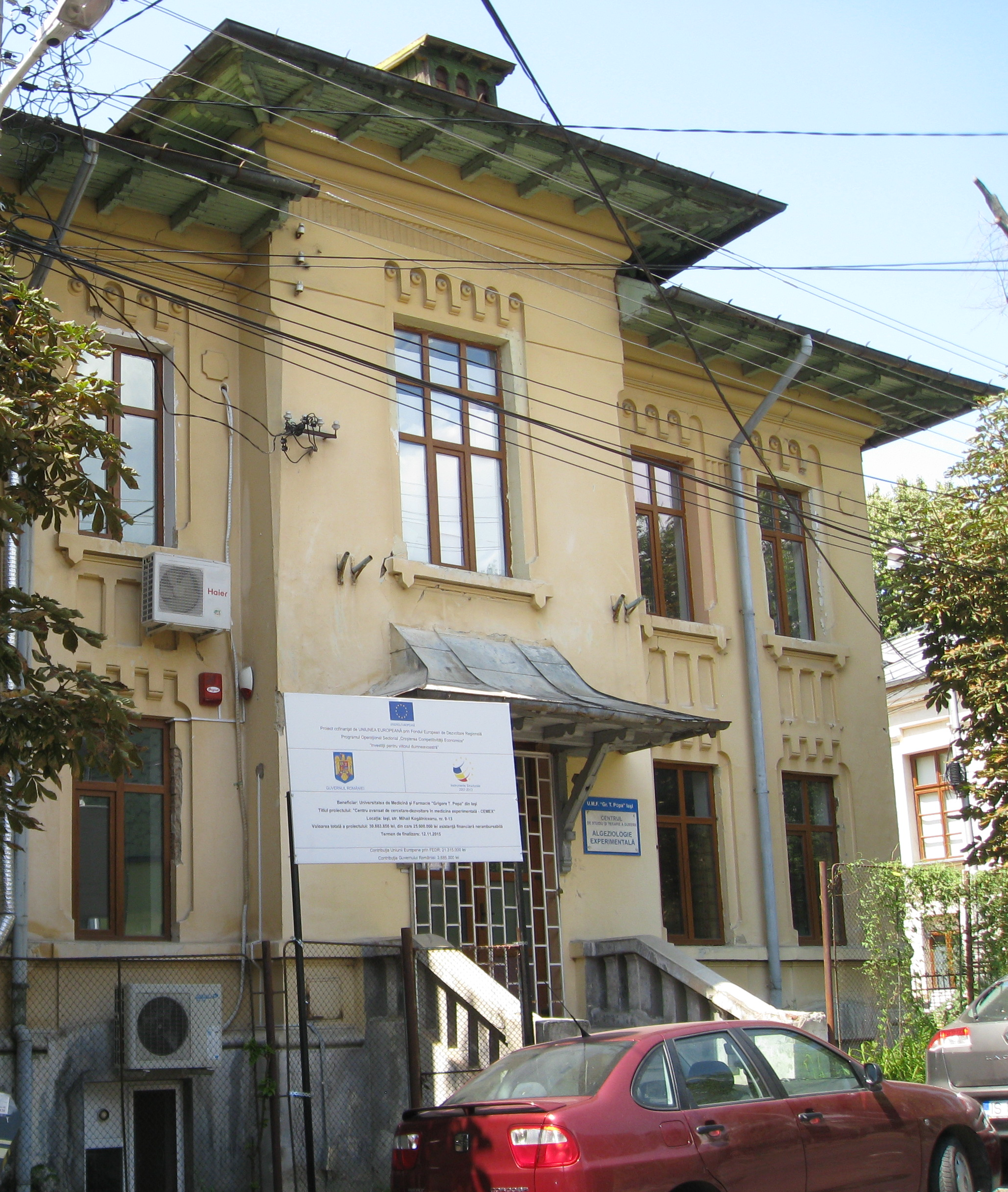 House of Alexandru I. Philippide in Iași, Romania.